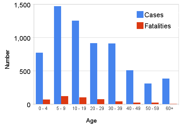 A bar chart showing cases of methylmercury poisoning in Iraq, 1971, as a result of the Basra poison grain disaster, grouped by age. Note that the two left most bars each represent groups of 5 years, the rest 10 years. Data: Bakir; Clarkson et al (20 July 1973). Methylmercury poisoning in Iraq. Vol. 181. no. 4096, pp. 230 - 241